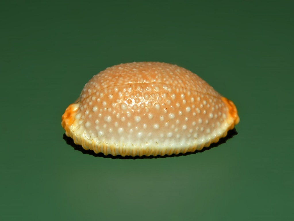 Nucleolaria nucleus